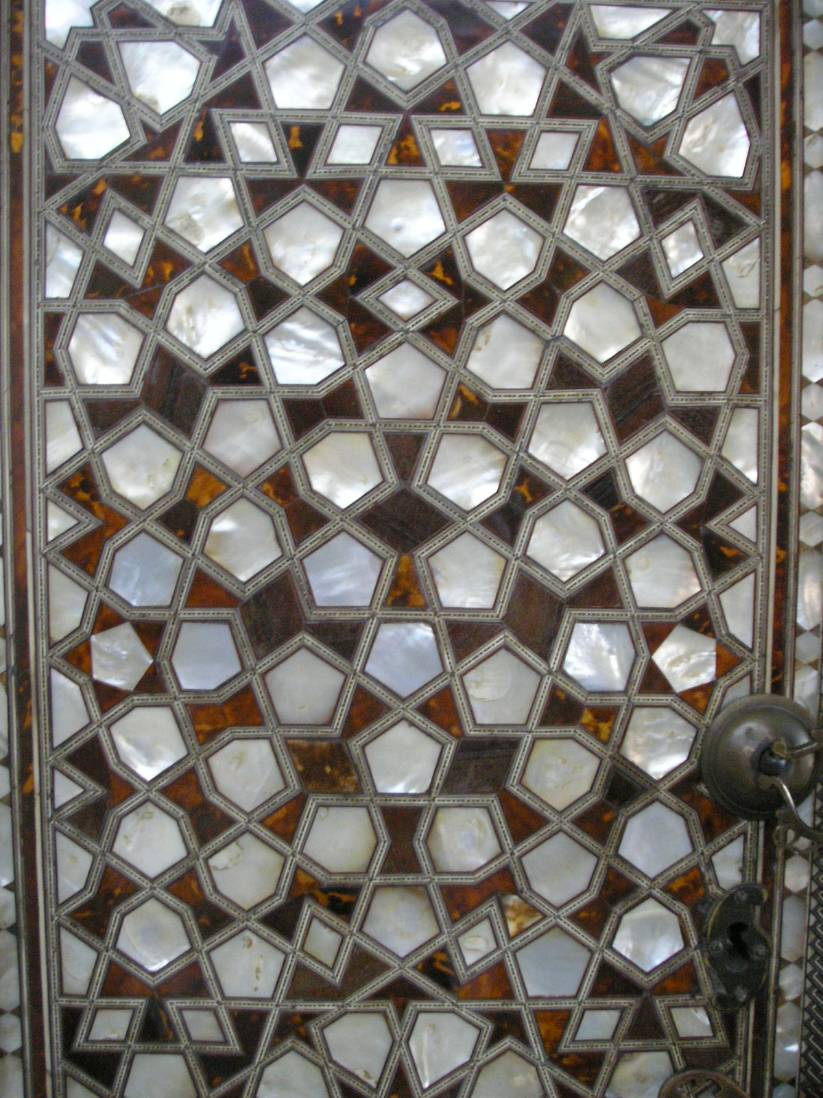 Detail of a cupboard door with mother-of-pearl, in the apartments of the Valide Sultan in the Topkapi Palace, Istanbul.